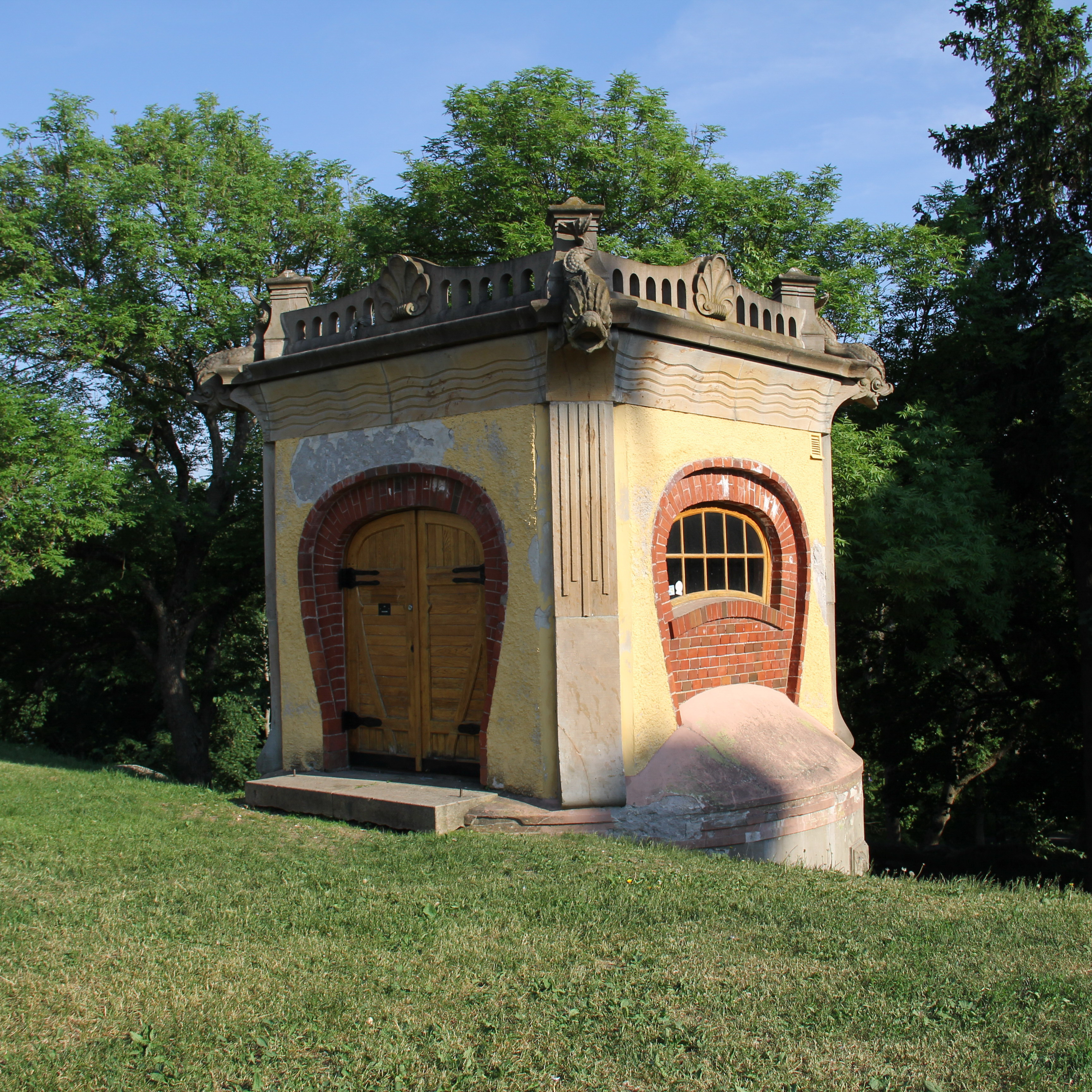 Vartivuori former water tank, pump and instrument room, Vartiovuori, Turku, Finland. Completed in 1903, architect not known.